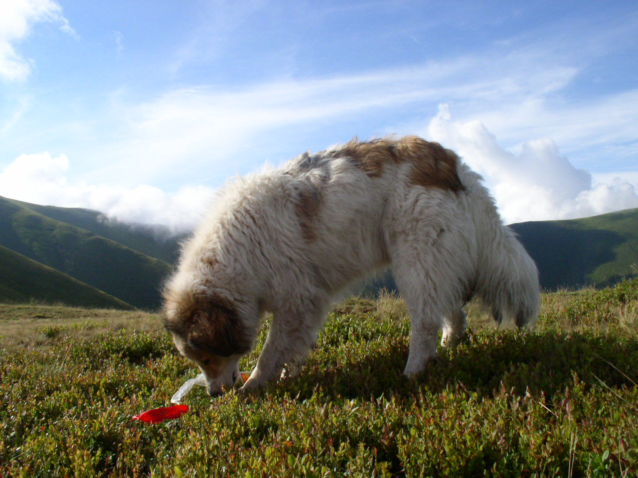 Possibly Carpathian sheepdog or Bucovina sheepdog